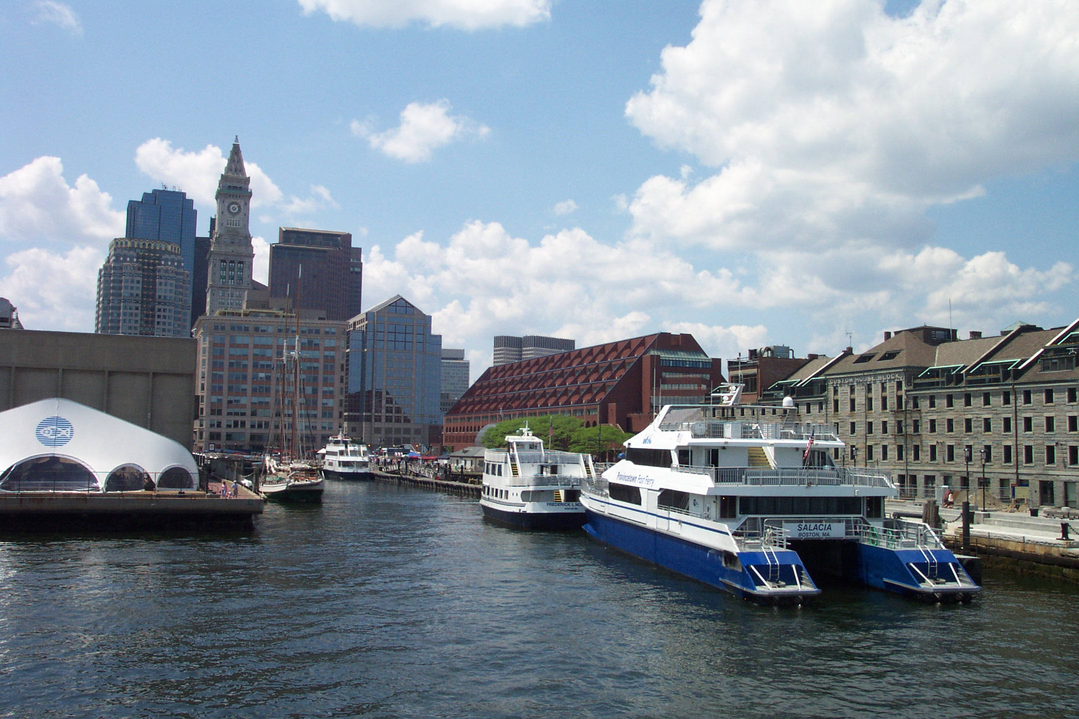 Long Wharf in waterfront downtown Boston was once the main commercial wharf of the port, but is now used by ferries and cruise boats. Boats in foreground: (all operated by Boston Harbor Cruises) First on right: Salacia passenger ferry, Second on right: Fredrick J. Nolan charter/party boat, and third on right, James J. Doherty charter boat.